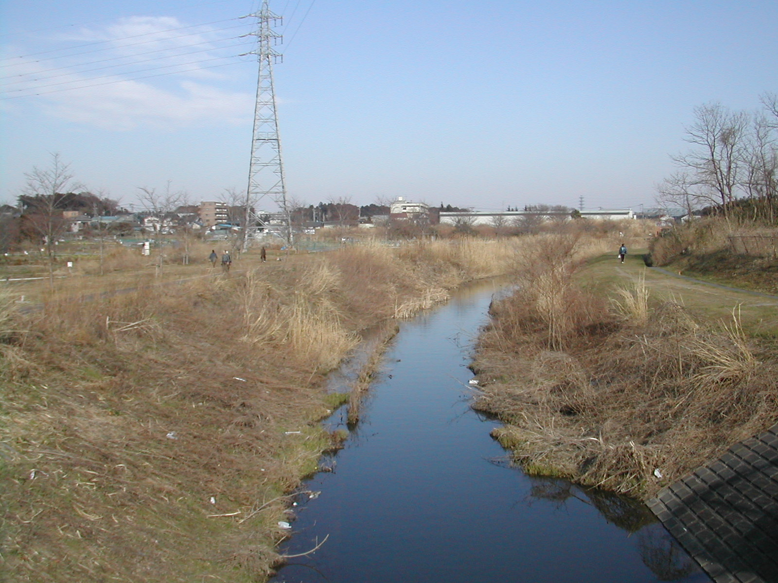 Ohoririver,chiba,Japan